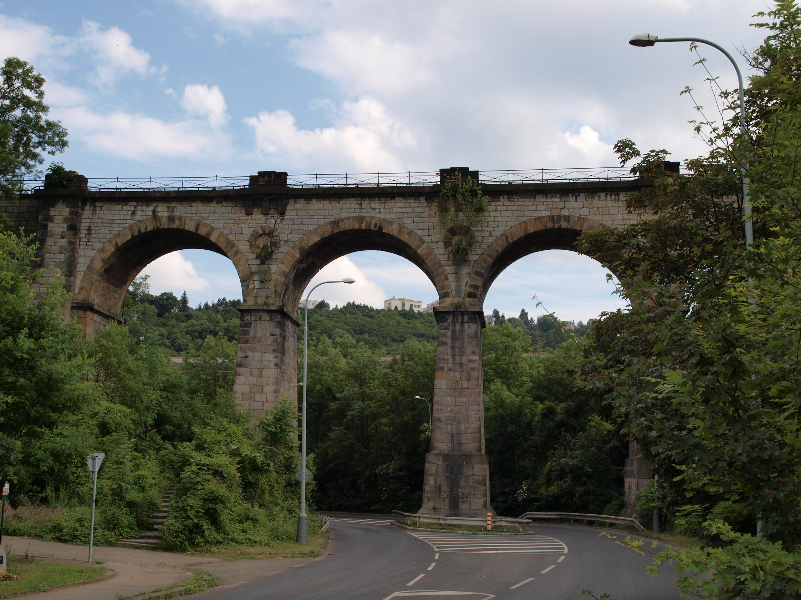 South-east viaduct of the Prague Semmering, Hlubočepy, Prague